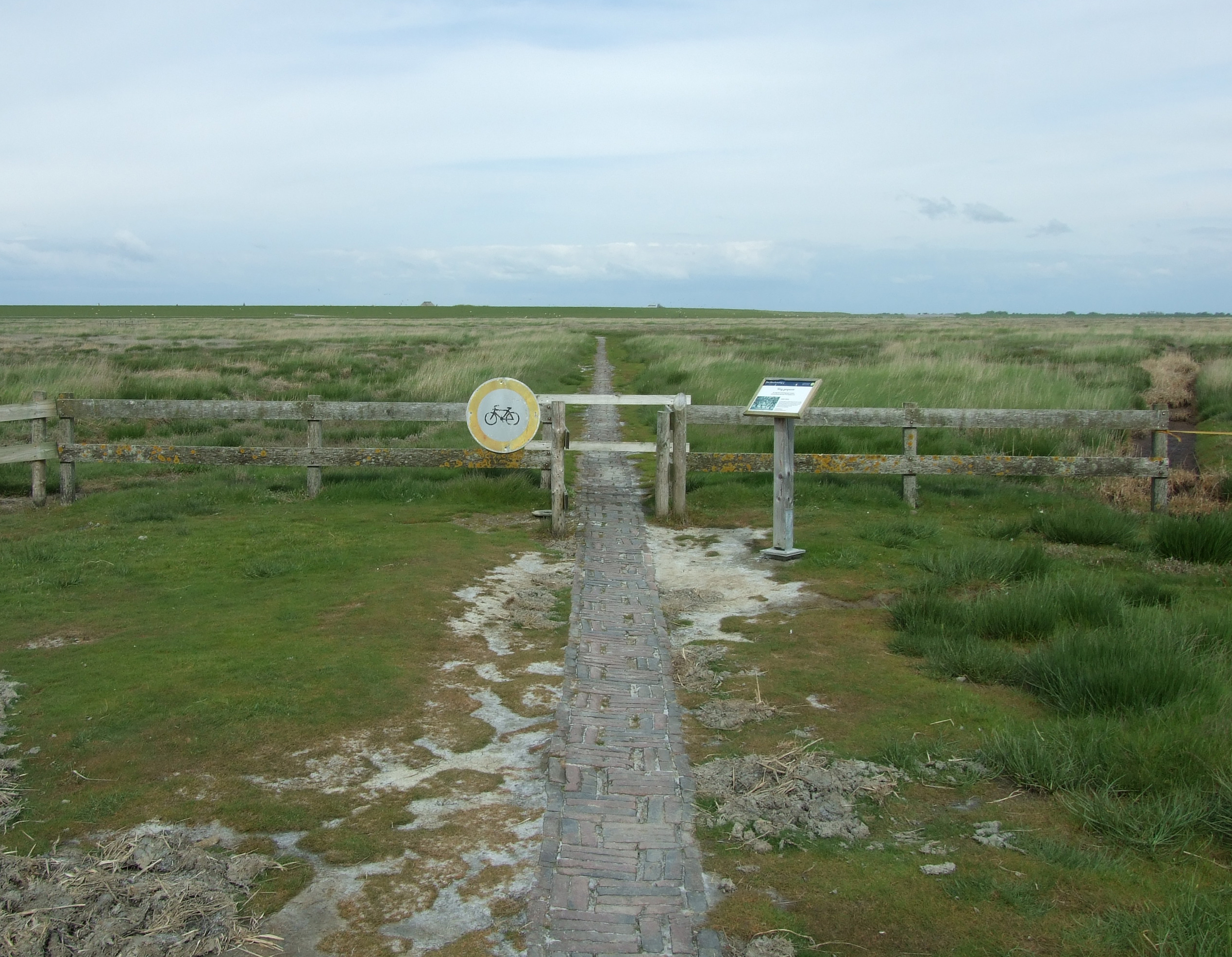 Stockenstieg at Lighthouse Westerheversand